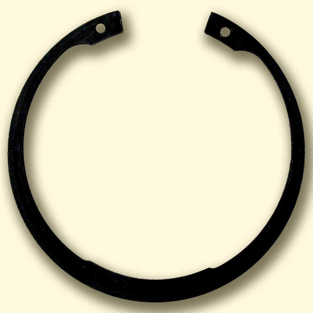 Internal snap ring (circlip)